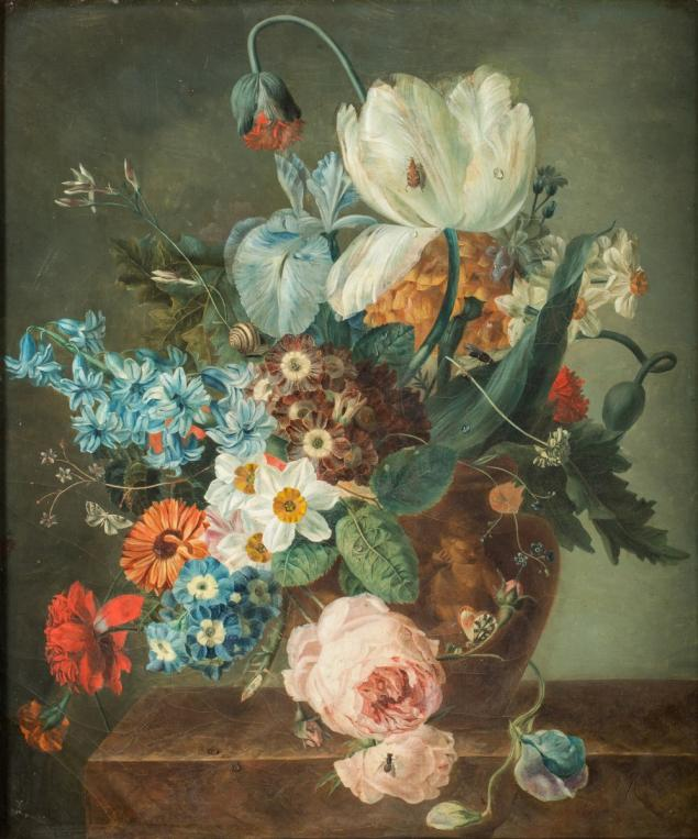 Flowers in a vase on a stone slab with insects, signed bottom right